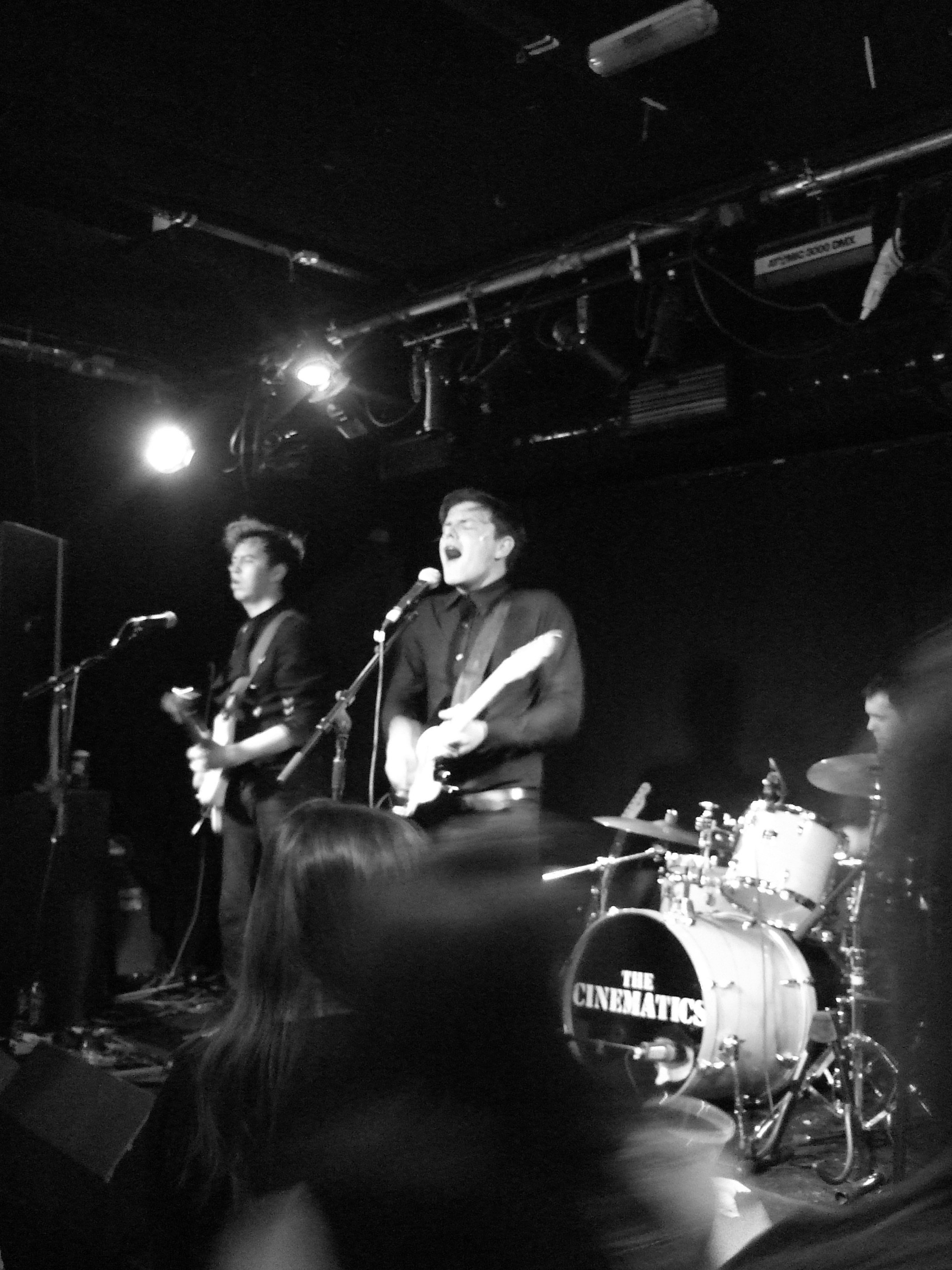 Scottish band The Cinematics performing at the Camden Barfly (UK)